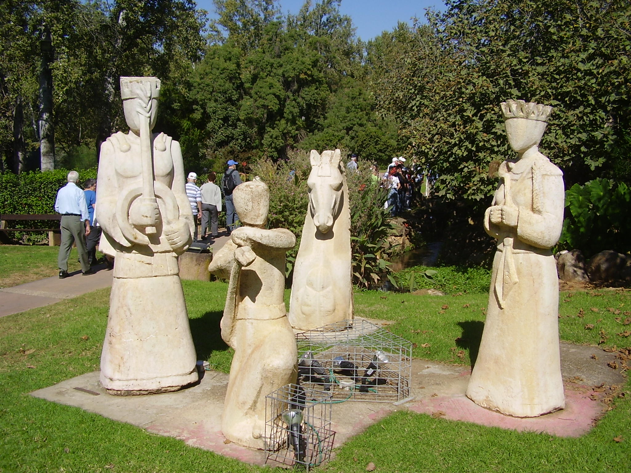 chessmen sculpture in kibbutz hagoshrim. the sculptor is arie ashkenazi